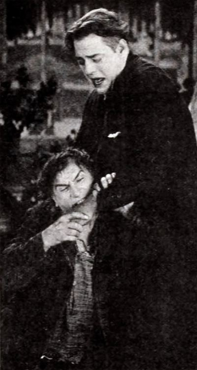 Still from the American drama film The Sign of the Rose (1922) with George Beban and Arthur Thalasso (1883 - 1954), on page 79 of the February 11, 1922 Exhibitors Herald.